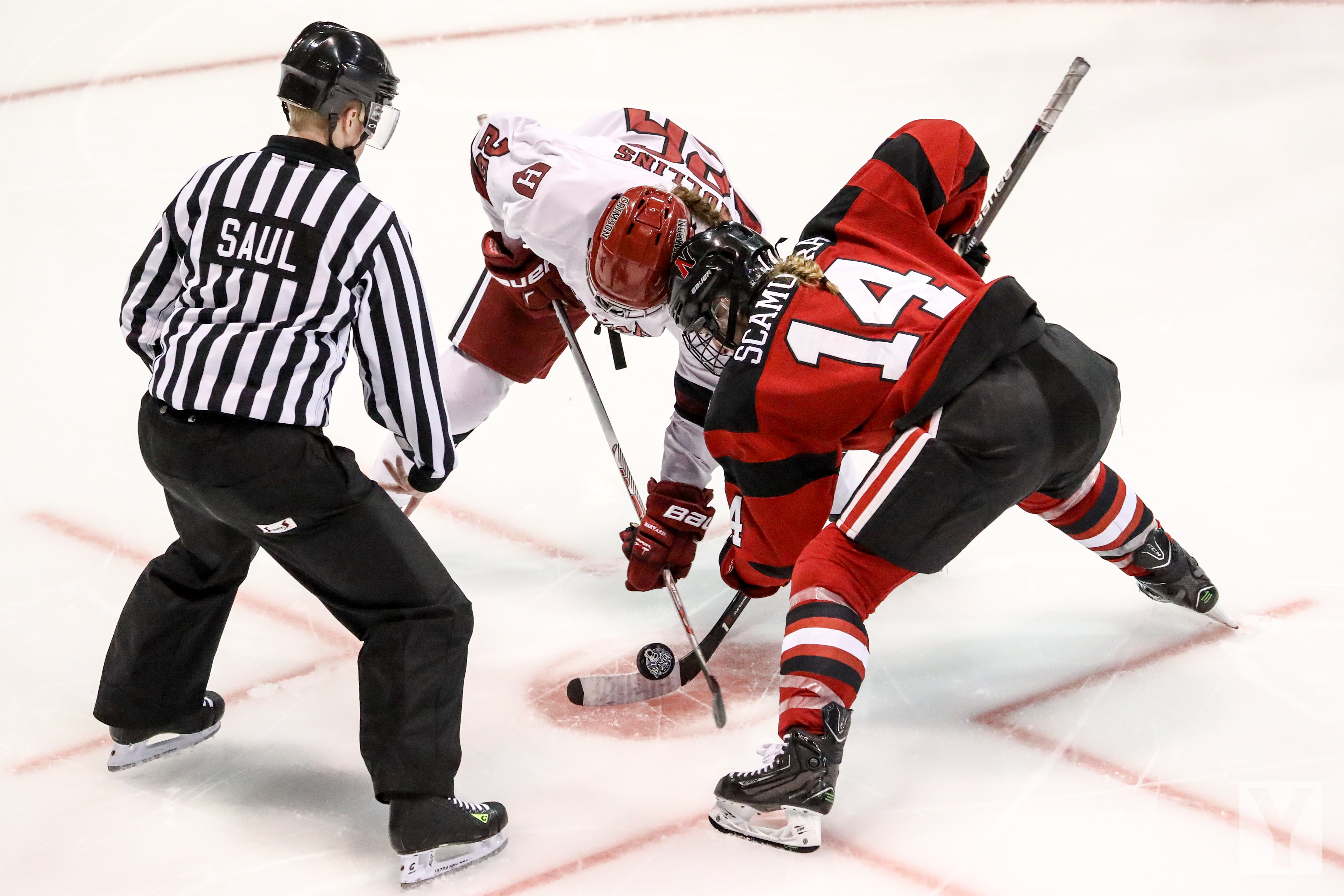 #14 Hayley Scamurra (NE Huskies); #26 Haley Mullins (Harvard); Matthews Arena, Boston, United States; report